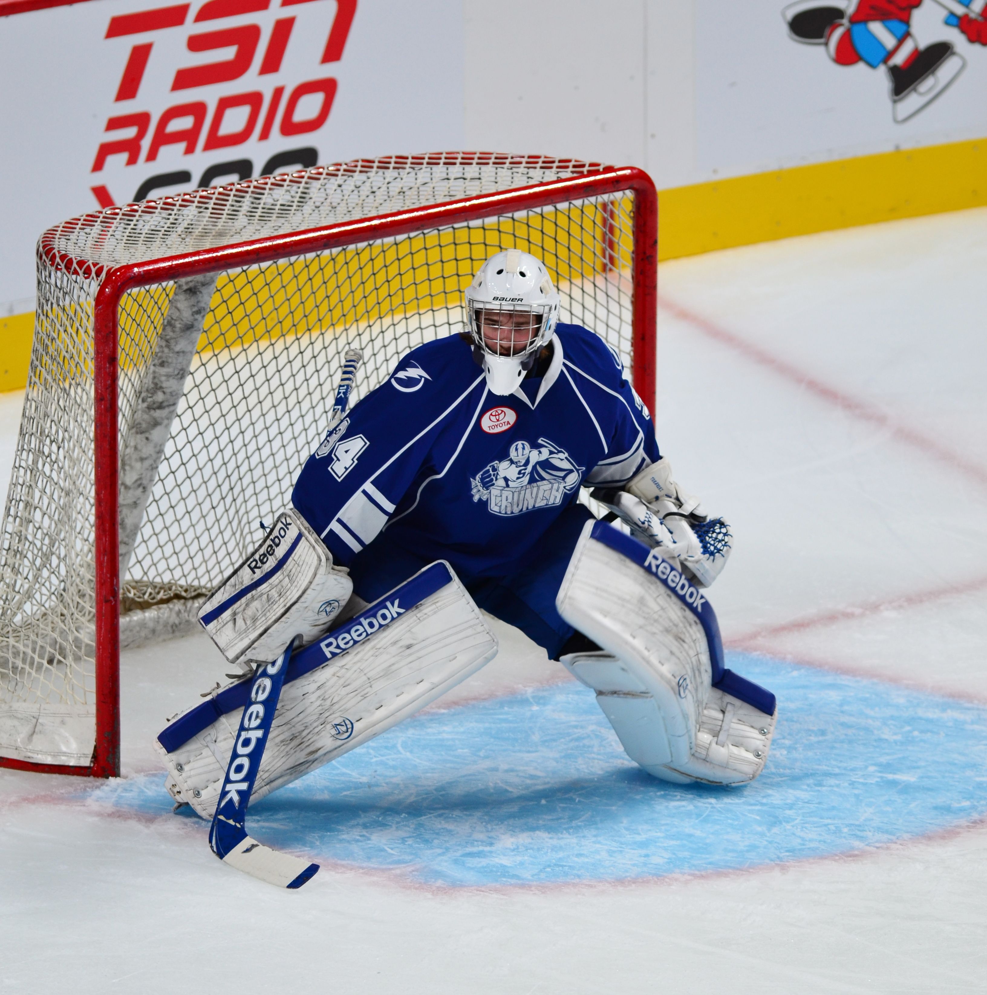 Template:WDustin Tokarski, in a game between the Hamilton Bulldogs and the Syracuse Crunch at the Bell Centre of Montreal.